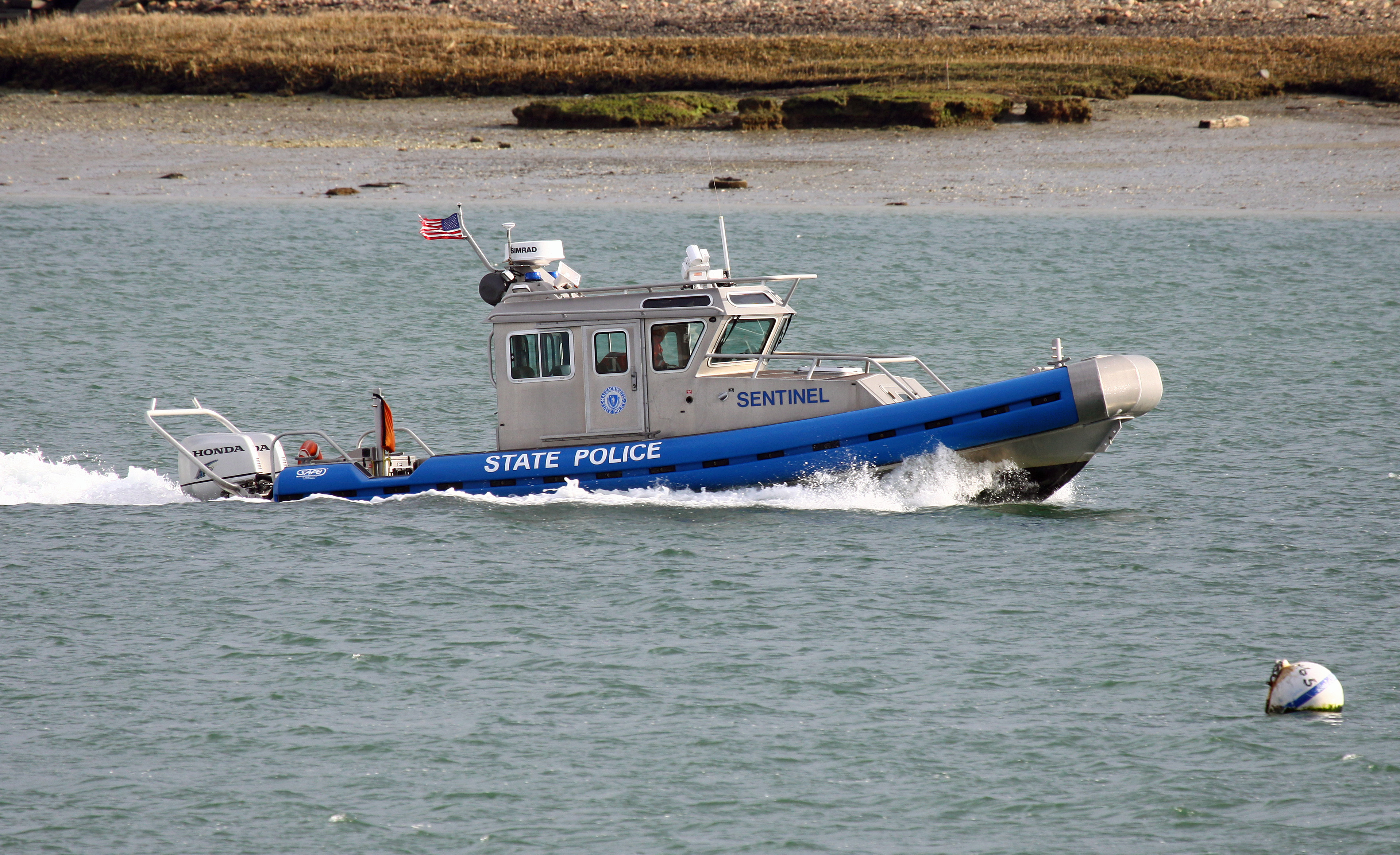 Police boat patrols Boston Harbor along the shoreline near Logan International Airport, East Boston, Massachusetts USA